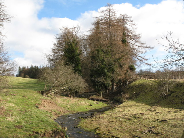 Cor Burn (2). Looking upstream from the 71477.